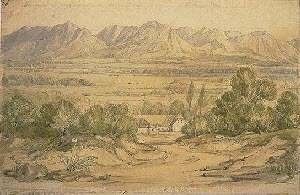 Cape of Good Hope, view south-east from above Wynberg, a field drawing in pencil and wash, executed by William Westall during the visit of HMS Investigator to Cape Colony in October–November 1801.